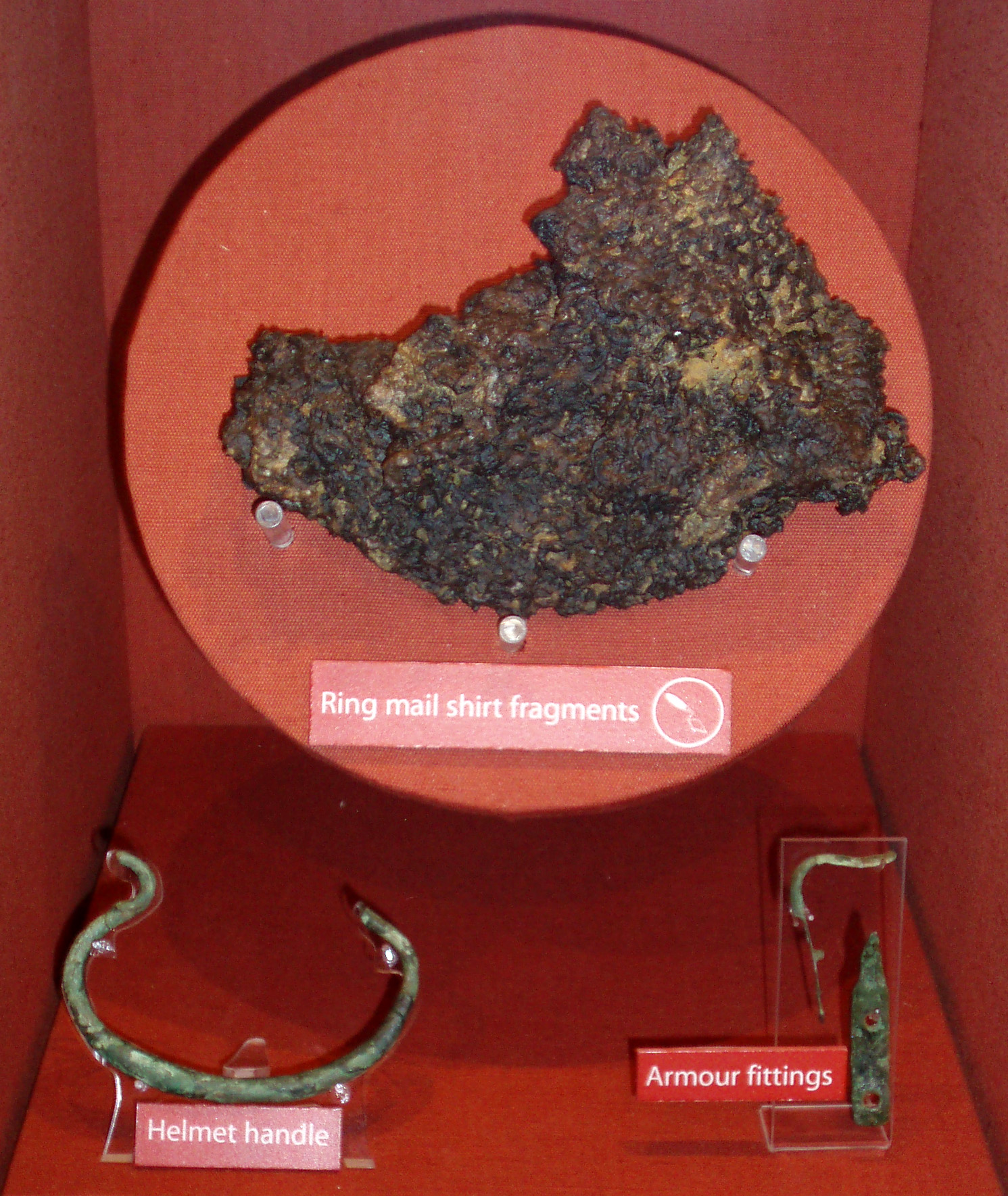 Armour Ring mail: the fragment of ring mail shirt is made up of rings 7mm in diameter. Each ring is linked to four others. Construction of ring mail. Ring mail shirt fragments. Helmet handle. Armour fittings This photo was taken as part of Britain Loves Wikipedia in February 2010 by James Murray.